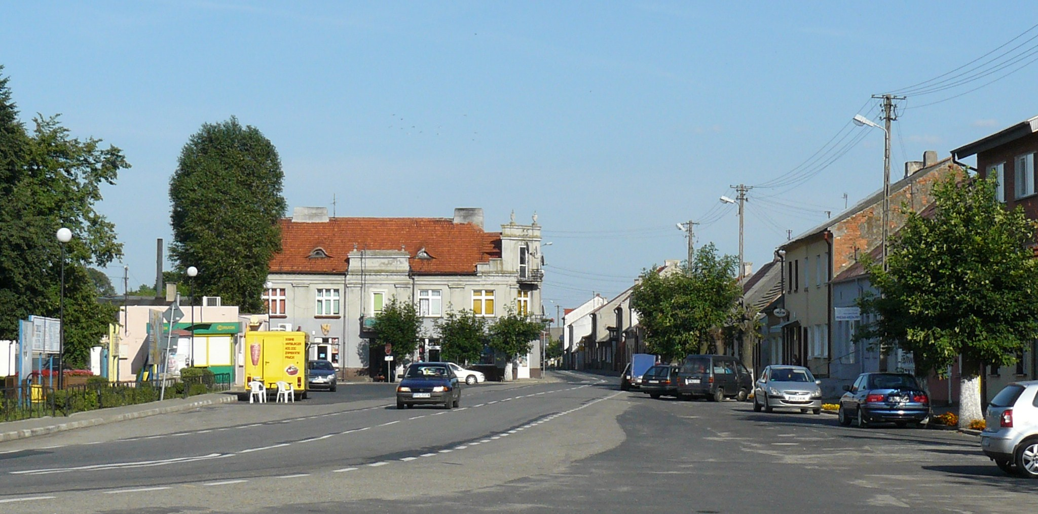 Chocz, PL. Market Square.